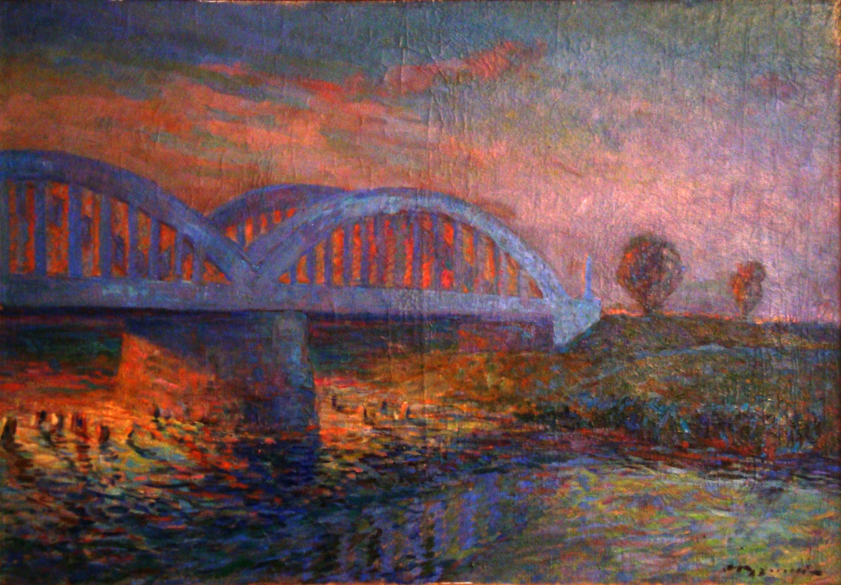 photo of a painting by Zdzislaw Pagowski, depicting a bridge near Lowicz, Poland